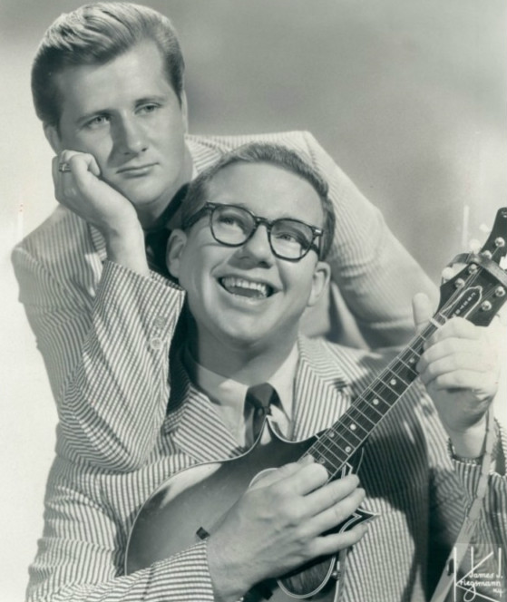 Publicity photo of the Geexinslaw Brothers comedy team.